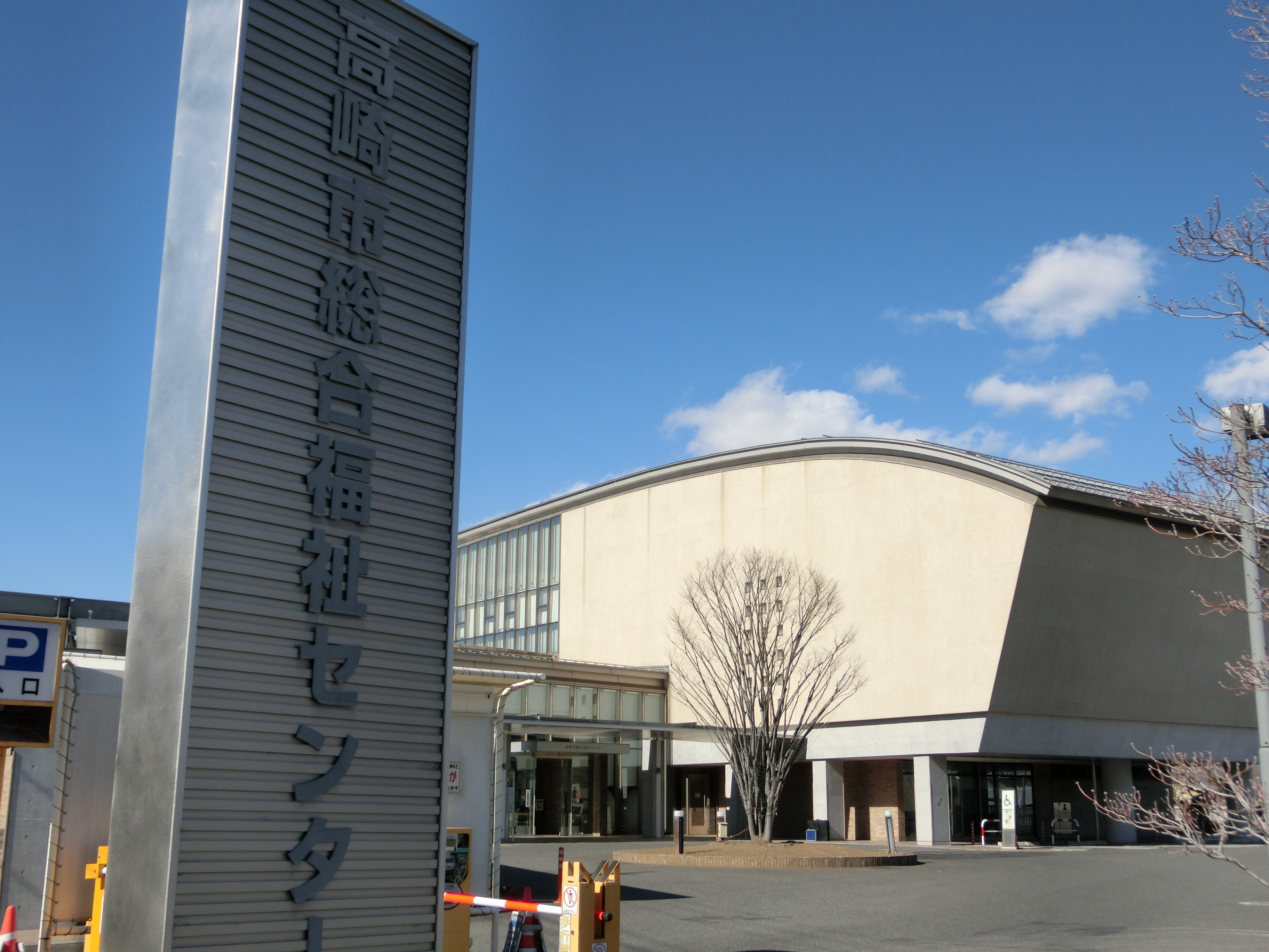 Akasaki General Welfare Center